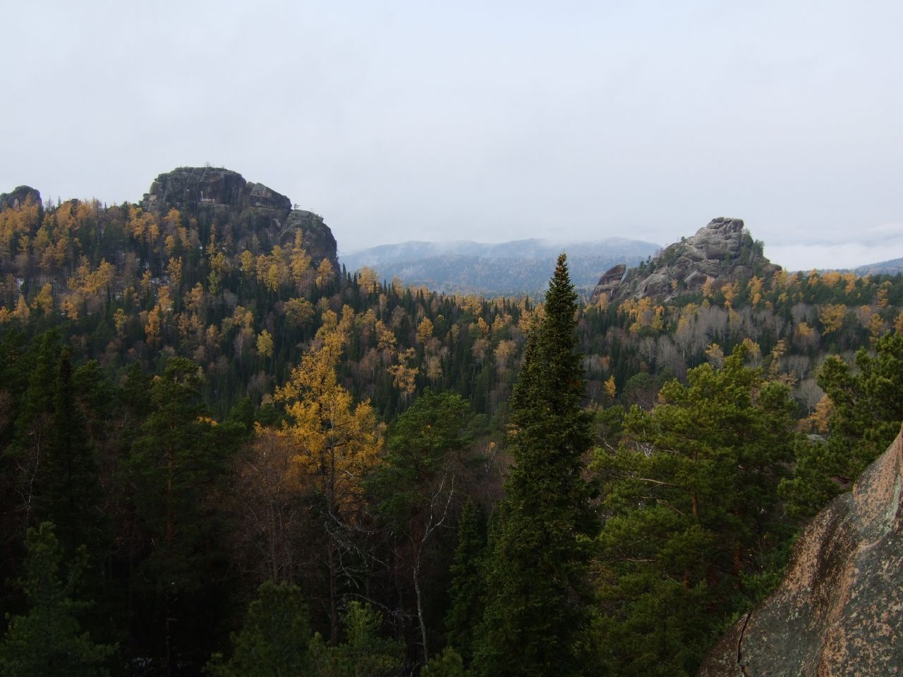 Stolby Nature Reserve, Krasnoyarsk, Russia